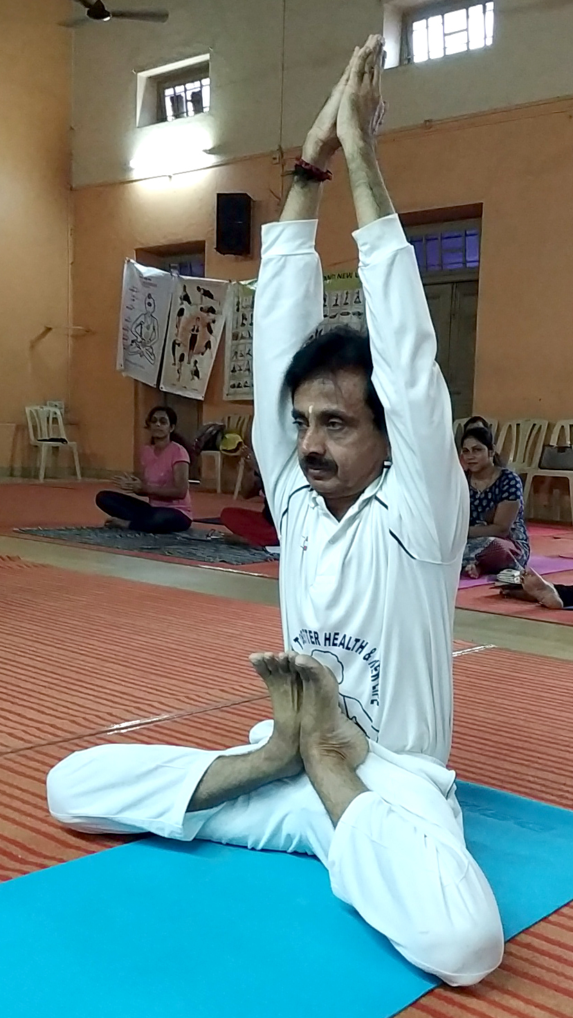 Gopalakrishna Delampady